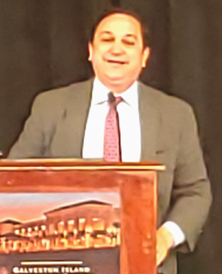 Steve Munisteri at the National Pachyderm Convention at the Galveston Island Convention Center in Galveston, Texas on September 7, 2019